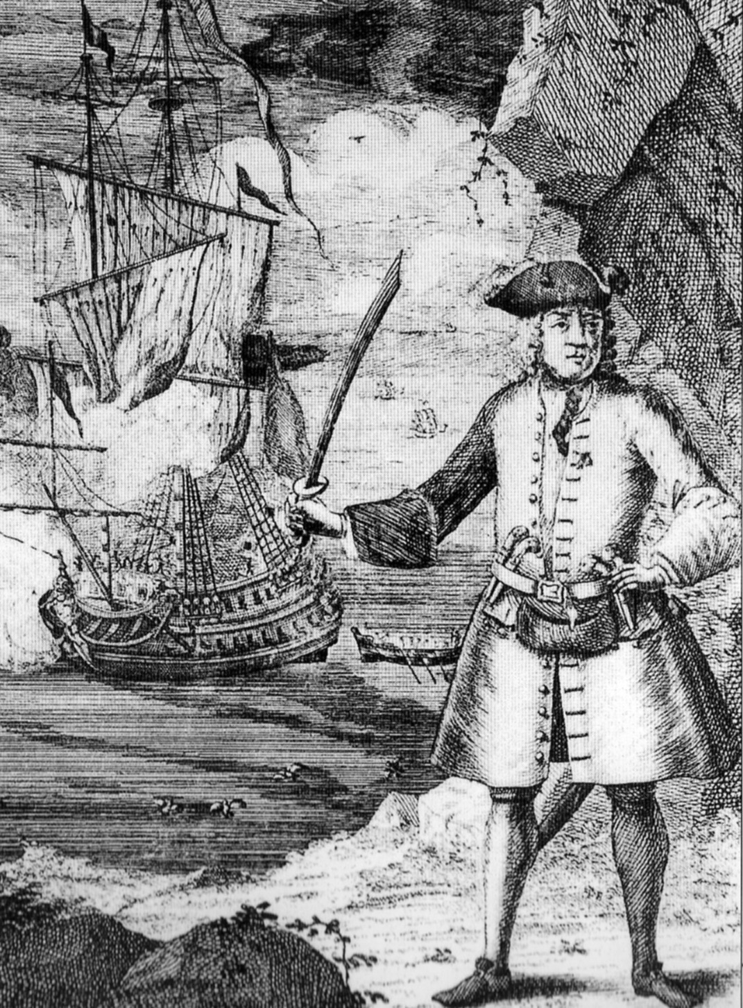 Arch Pirate Henry Every